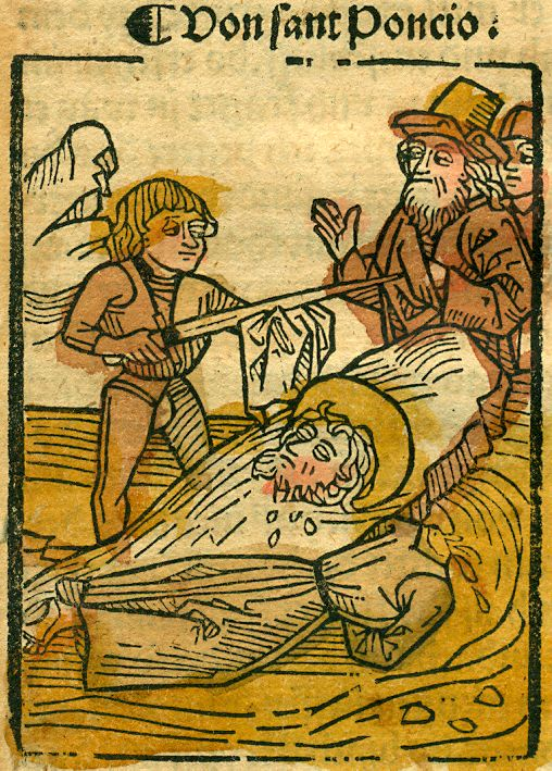 Woodcut from Der Heilegen Leben, printed by Johann Schoensperger at Augsburg, 2 December 1482. St. Pontius witnesses the martydom of St. Cyprian